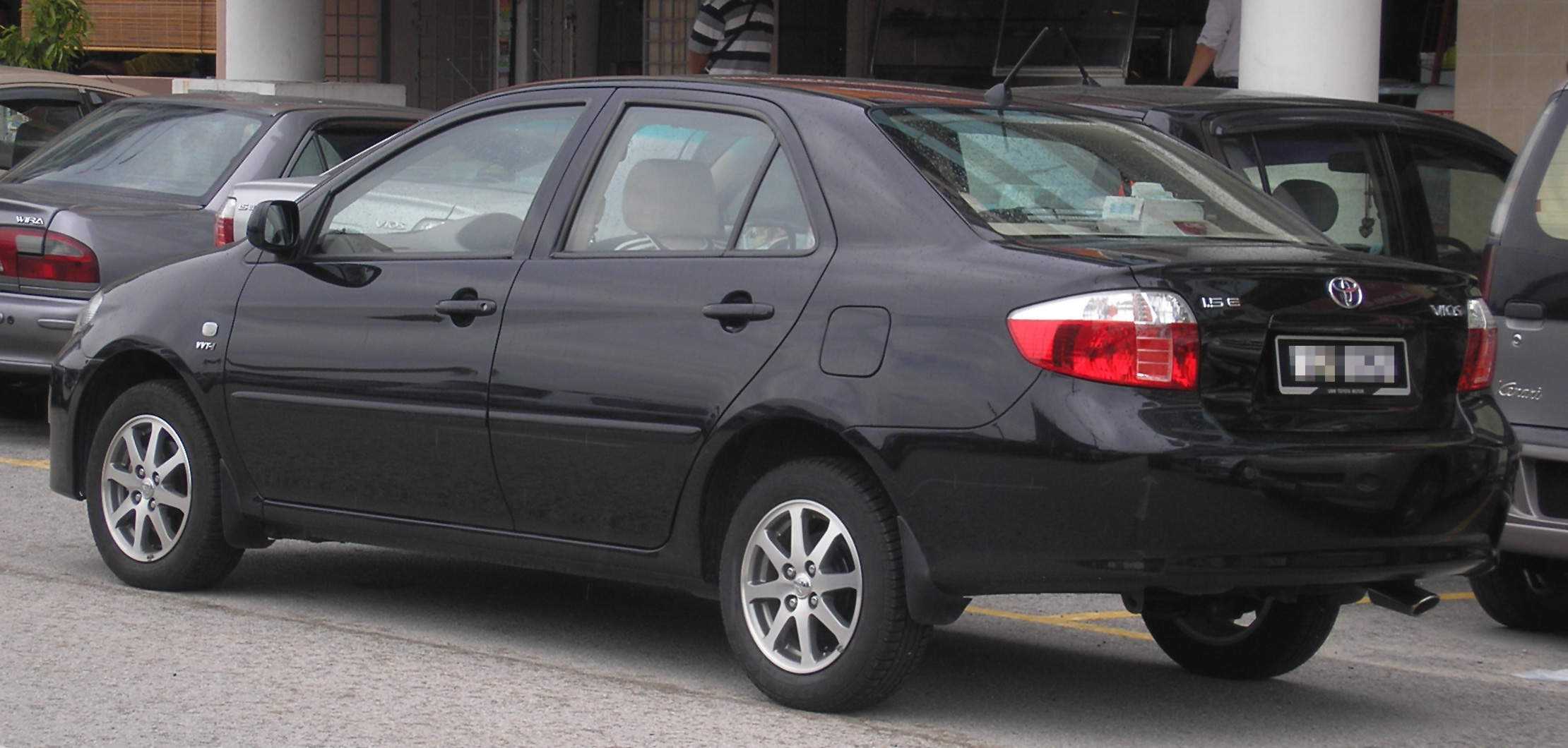 Rear-side shot of an first generation, first facelifted Toyota Vios, in Serdang, Selangor, Malaysia.